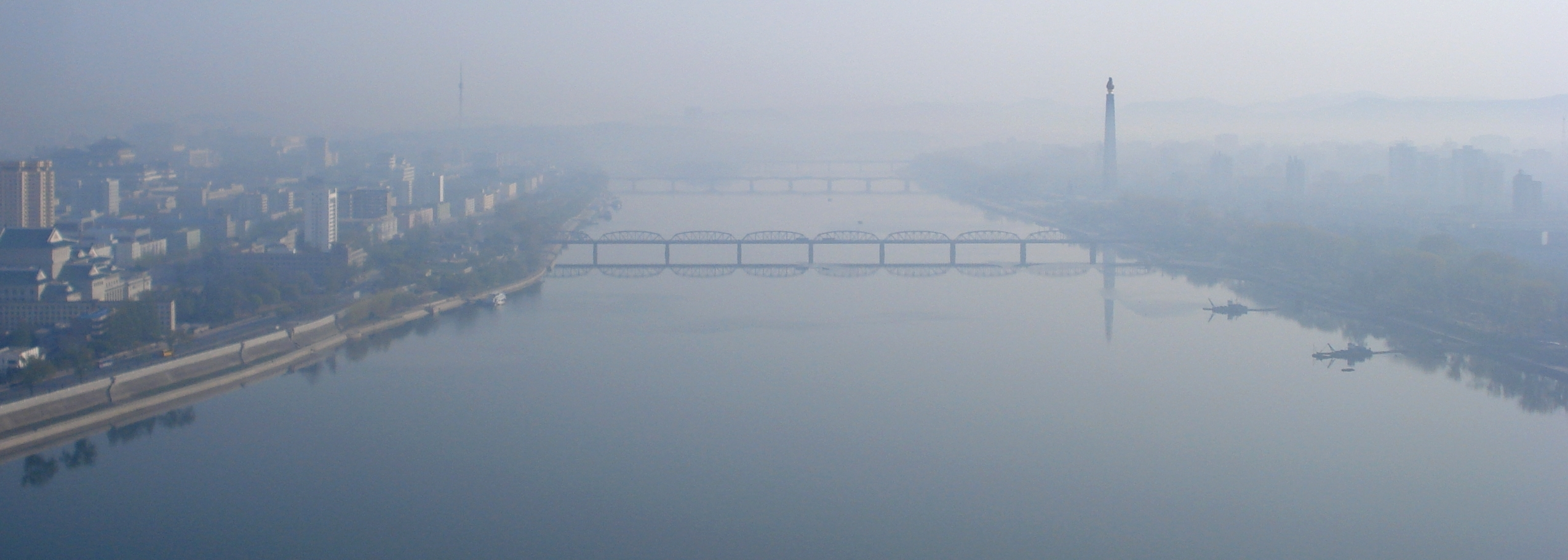 Pyongyang, DPR Korea (North Korea) in the morning fog. View facing upstream (North-Northeast) from the Yanggakdo Hotel . The tall building on the right side of the river is the Juche Tower. The two bridges visible are the Taedong Bridge (closer) and Okryu Bridge (farther). Beyond the Okryu Bridge, the outline of Rungra Islet is faintly visible.